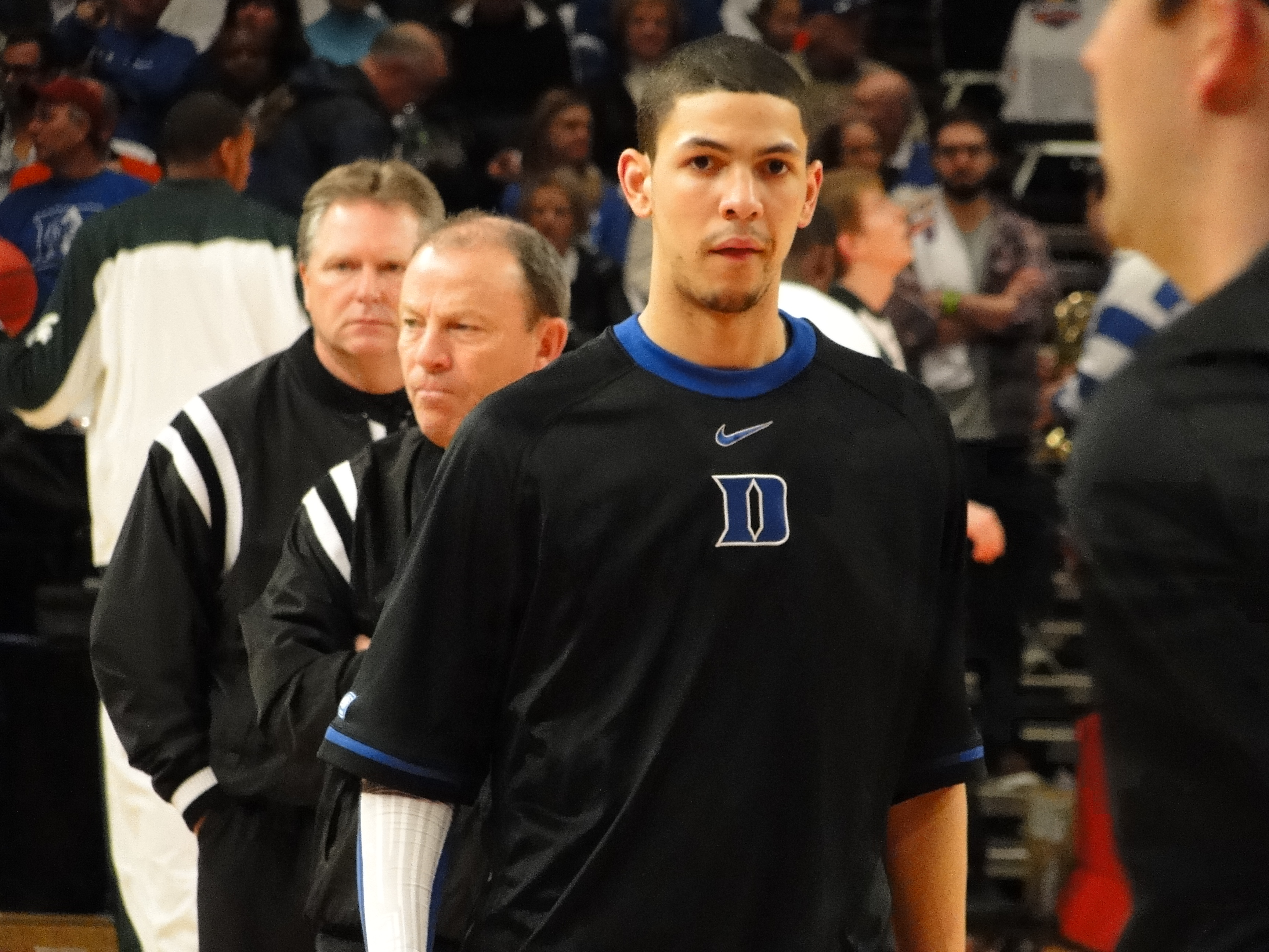 Austin Rivers in 2011.